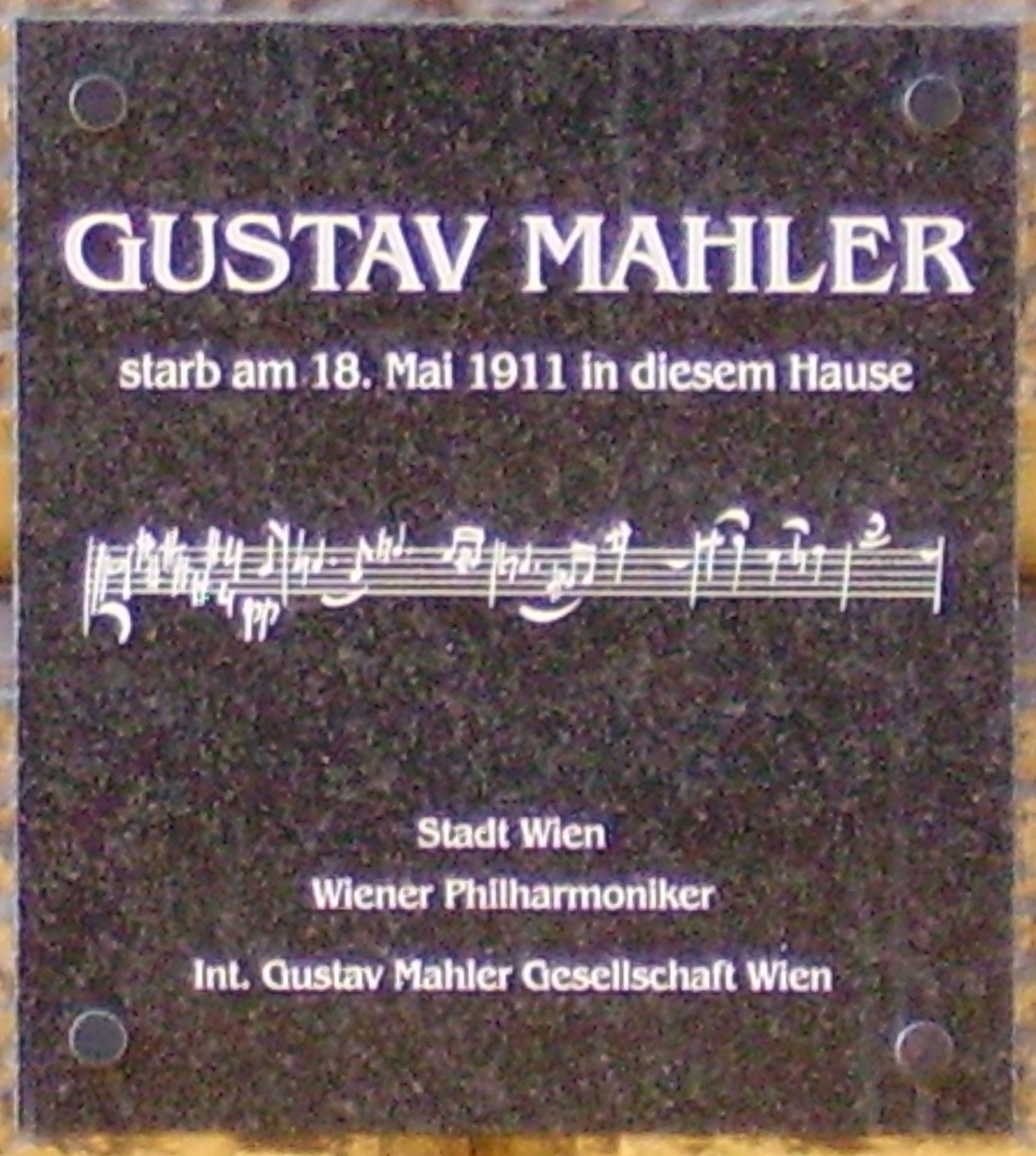 Gustav Mahler memorial plaque at his last residence (hospital)